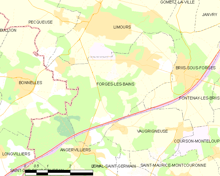 Map of French municipality Forges-les-Bains